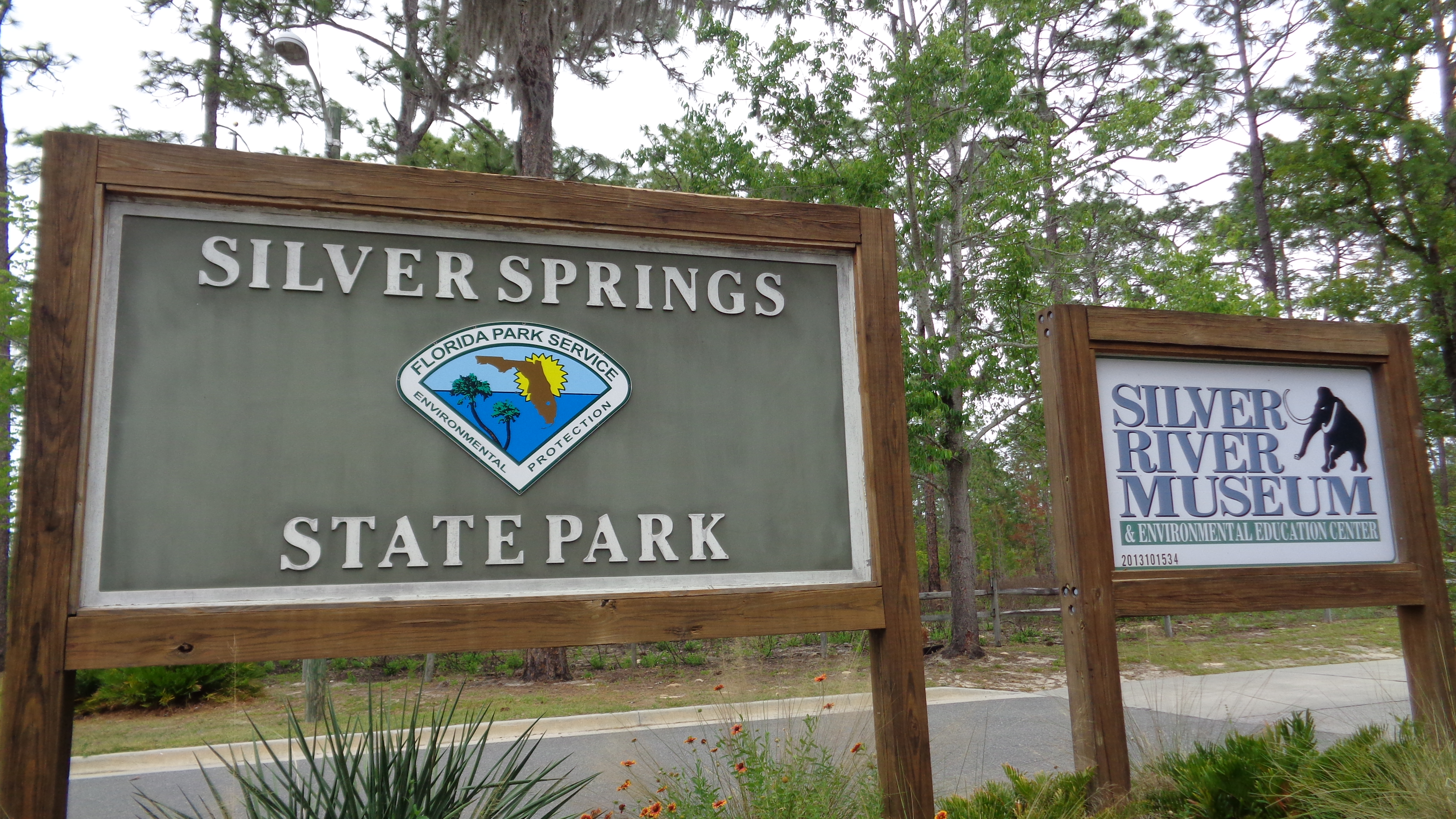 Silver River Museum entrance sign at Silver Springs State Park.